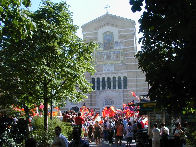 Rome, Testaccio: St. Mary Liberator (feast for the title of Rome, June 2001)